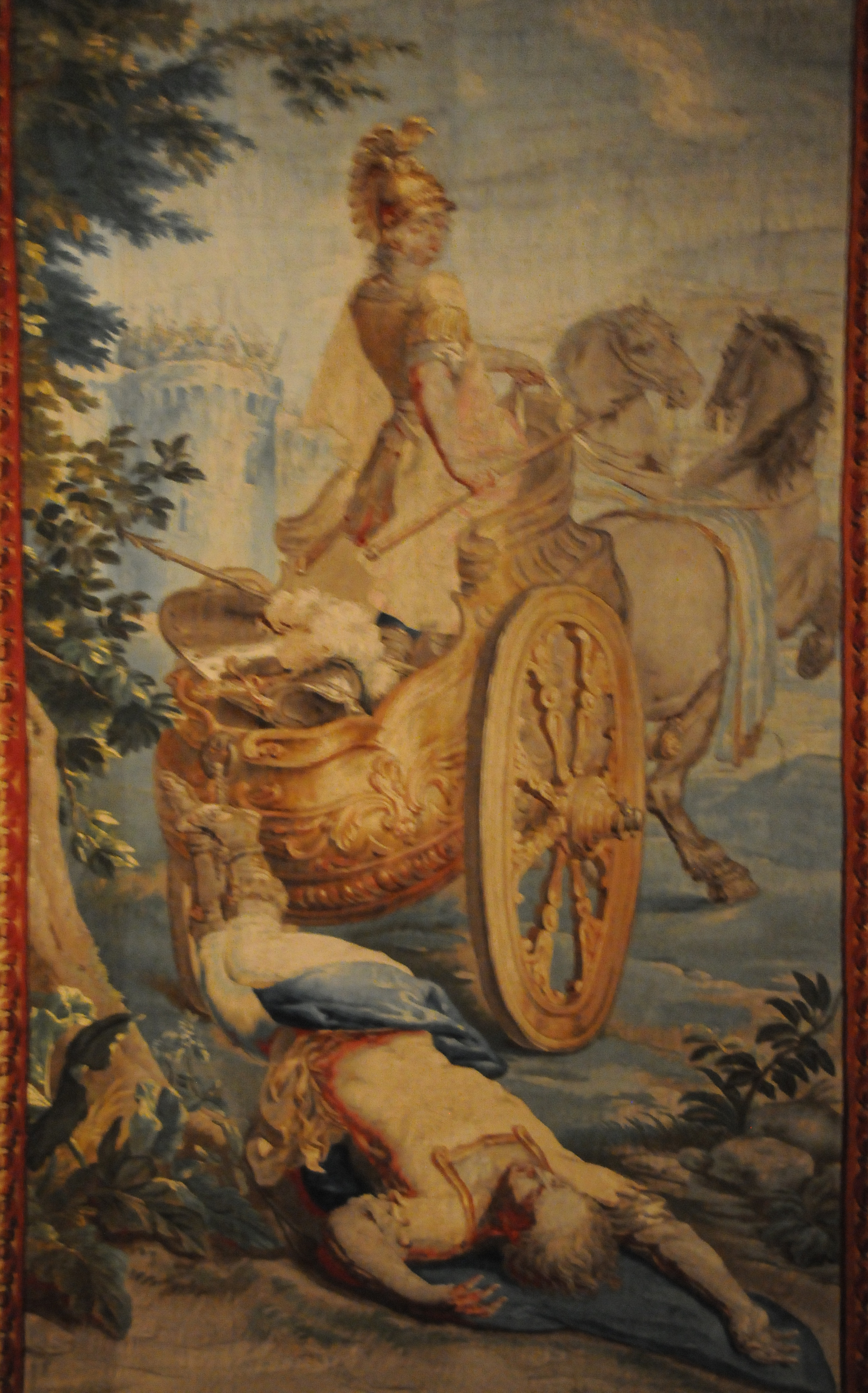 Interior of Palácio Nacional da Ajuda, Lisbon, Portugal